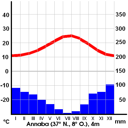 Climate diagram (in German) of Annaba in Algeria created with